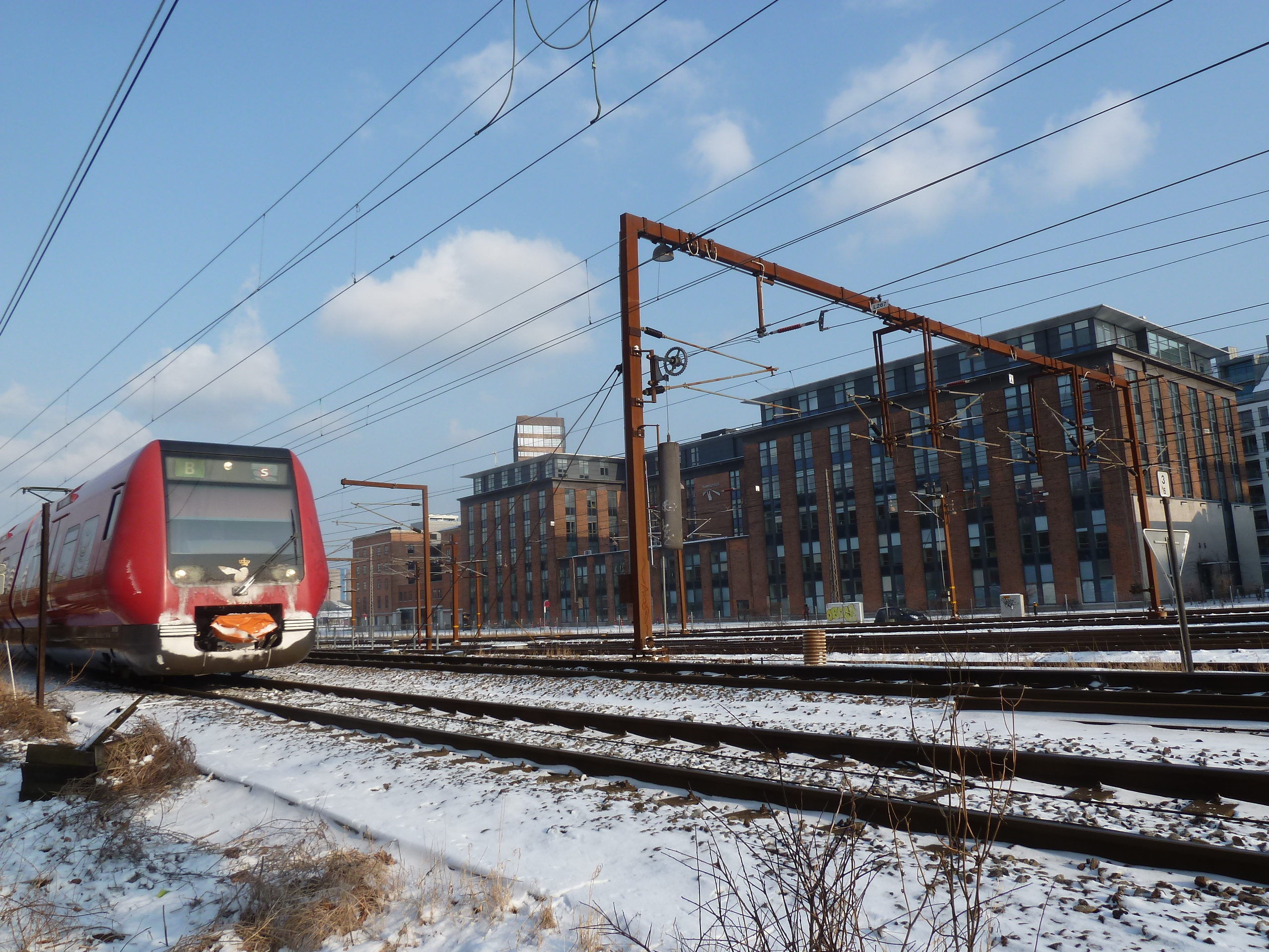 The head quartier of Banedanmark in Østerbro in Copenhagen.